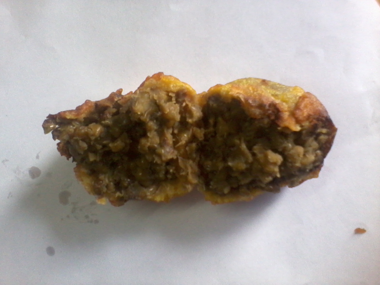 sughiyan opened